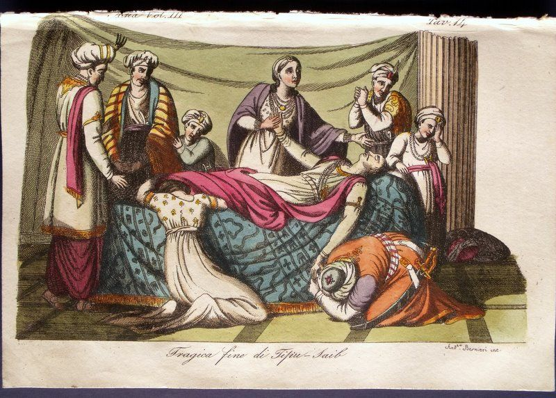 A view from Giulio Ferrario's 'Il costume antico e moderne', Florence, 1824